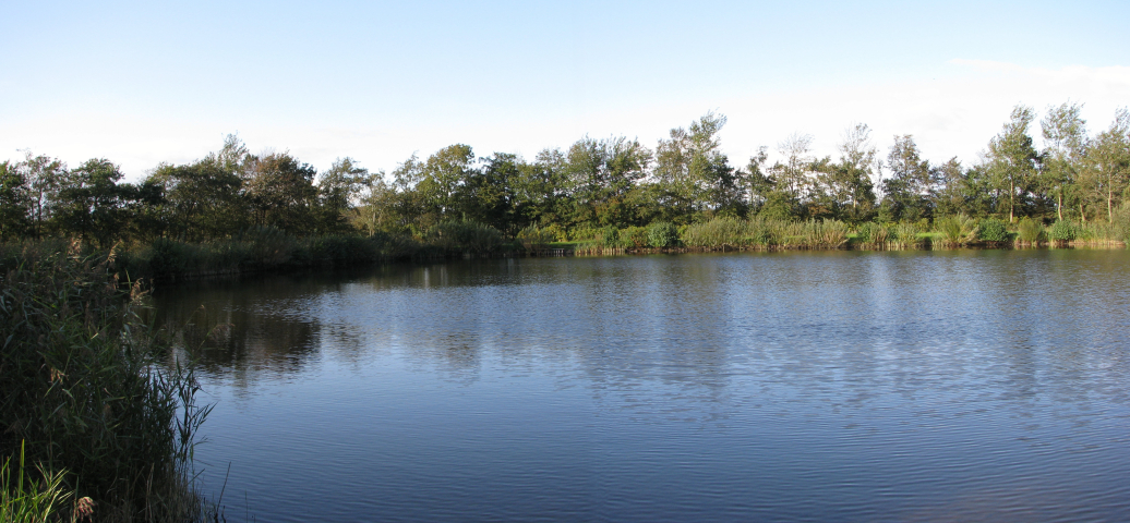 Small swimming lake aside of Almdorf, Germany